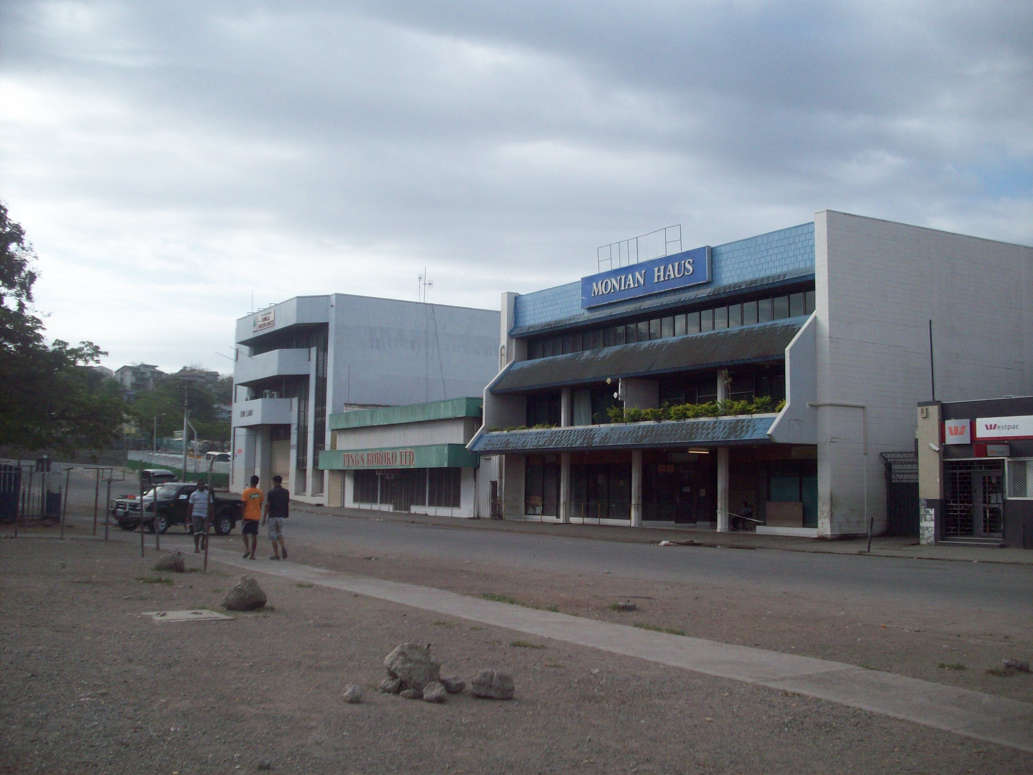 Empty Boroko stores 2012